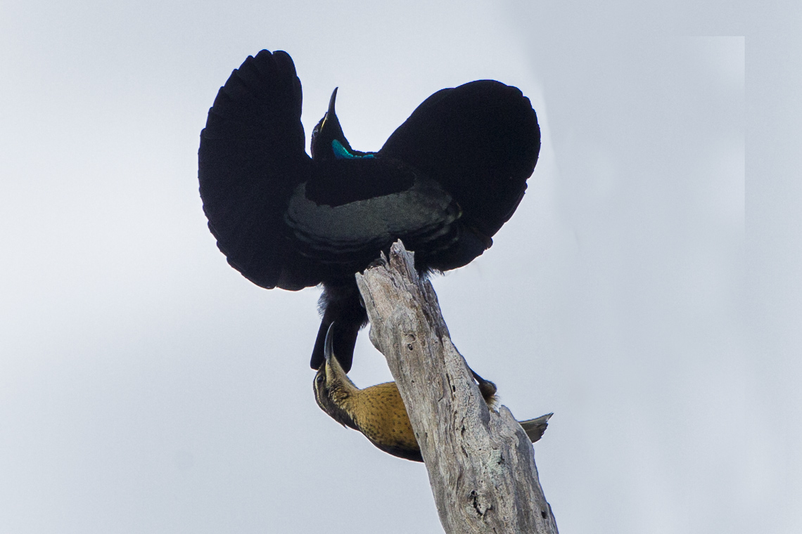 Victoria's Riflebird courtship - Lake Eacham - Queensland_S4E8070